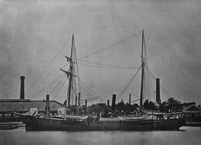 Photo shows the Polaris prepping for the Charles Francis Hall expedition to the North Pole in 1871, from which she did not return, being crushed by ice in 1872. The original image, later copied by the Detroit Publishing Company, was taken at the Washington Navy Yard, where she was originally modified for the expedition before heading north.